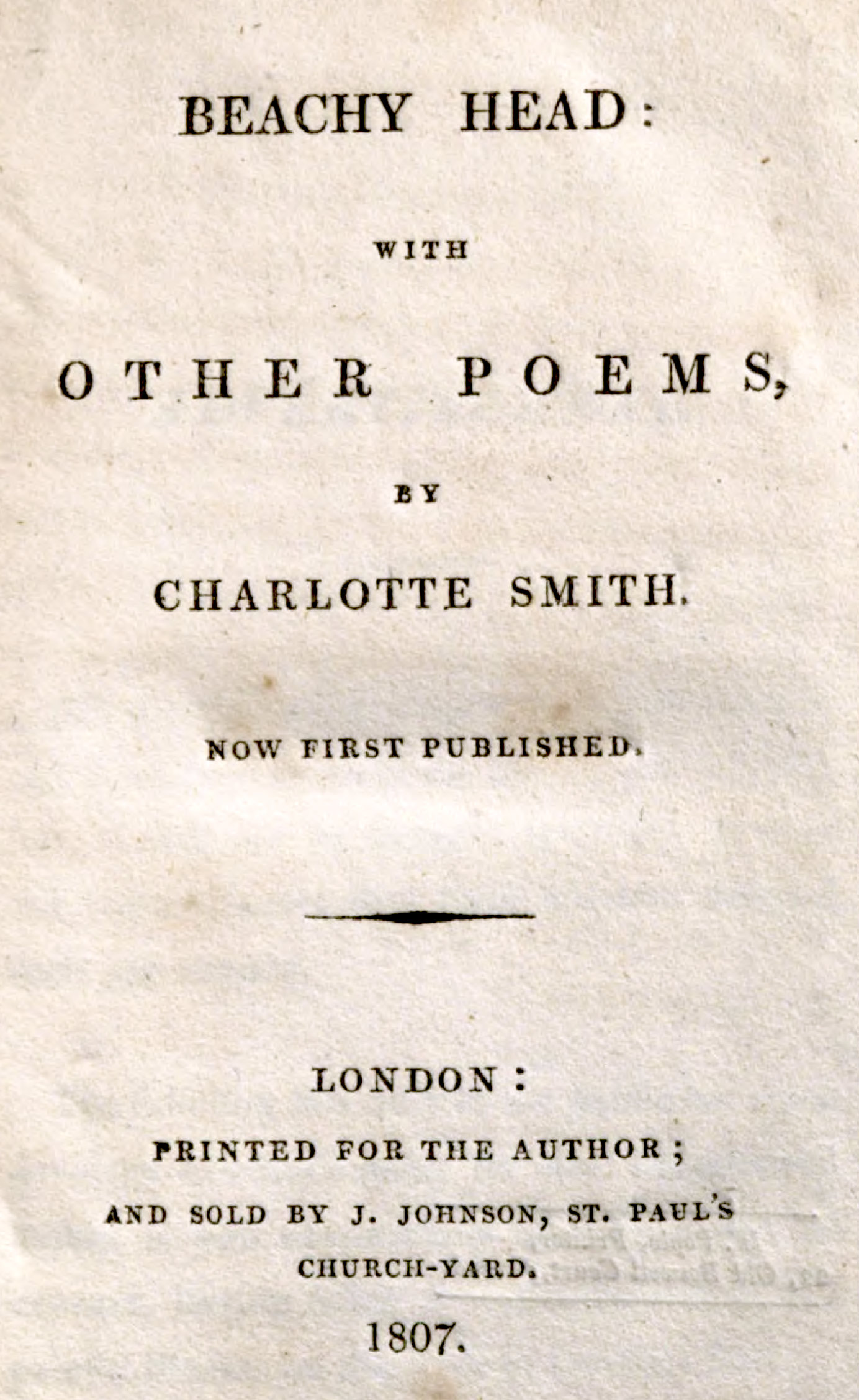 Beachy Head: With Other Poems, by Charlotte Smith. Now first published. London: Printed for the author; and sold by J. Johnson, St. Paul's church-yard. 1807.